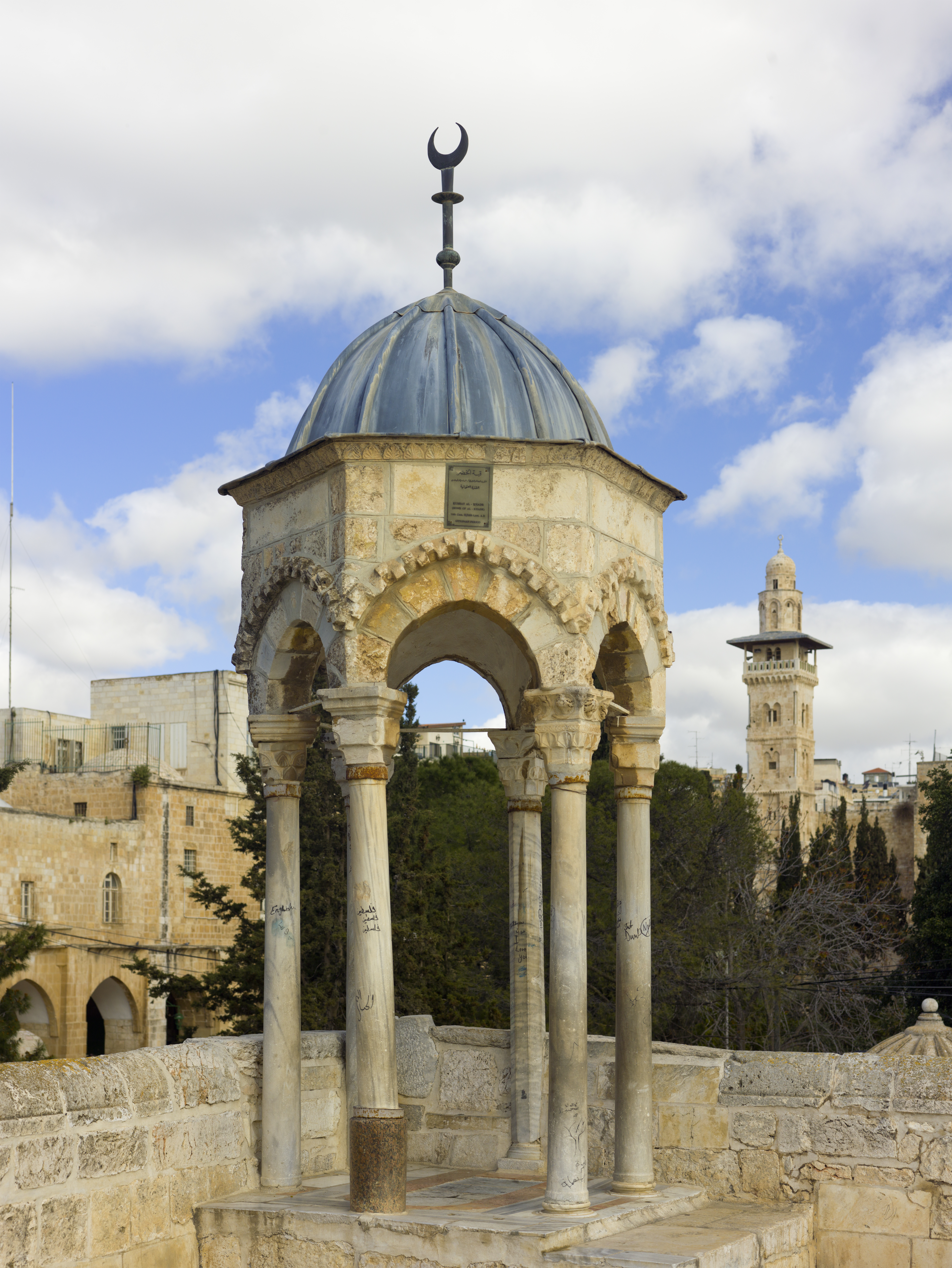 The Dome of al-Khadr (also spelled Khidr) Qubbat al-Khadr, Temple Mount, Old City of Jerusalem.